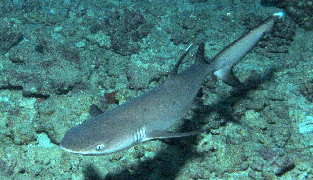 White tip reef shark in a cave at Shaab Marsa Alam, Red Sea, Egypt #SCUBA